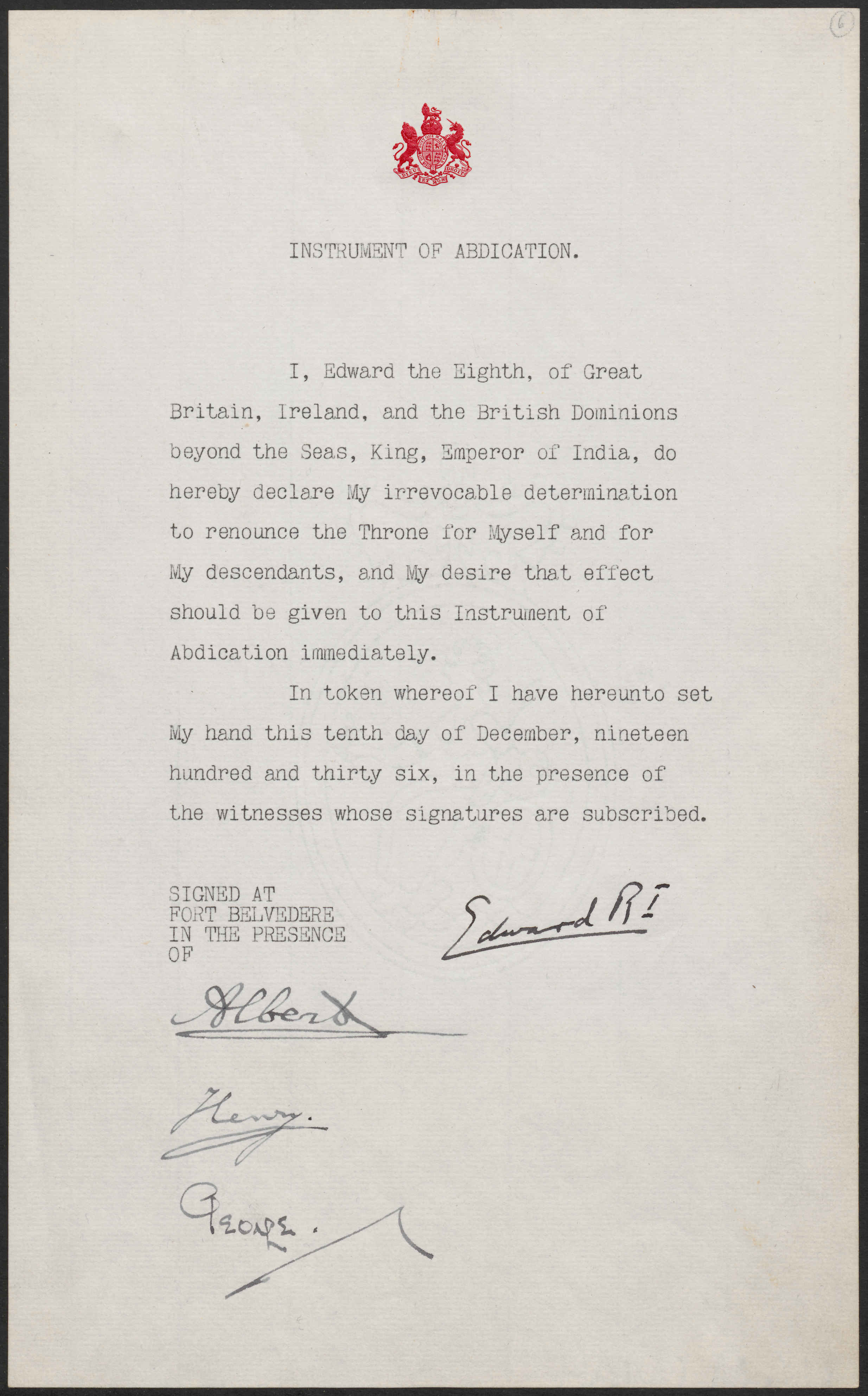 Statement of Abdication